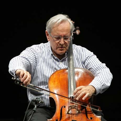 The 4th 1000 Cellists Concert ~ Heartfully Wishing for Peace on Earth from Hiroshima ~ Conductor D. Geringas